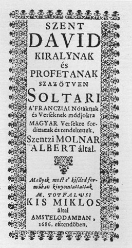 The title page of the "small size" amsterdam psalter